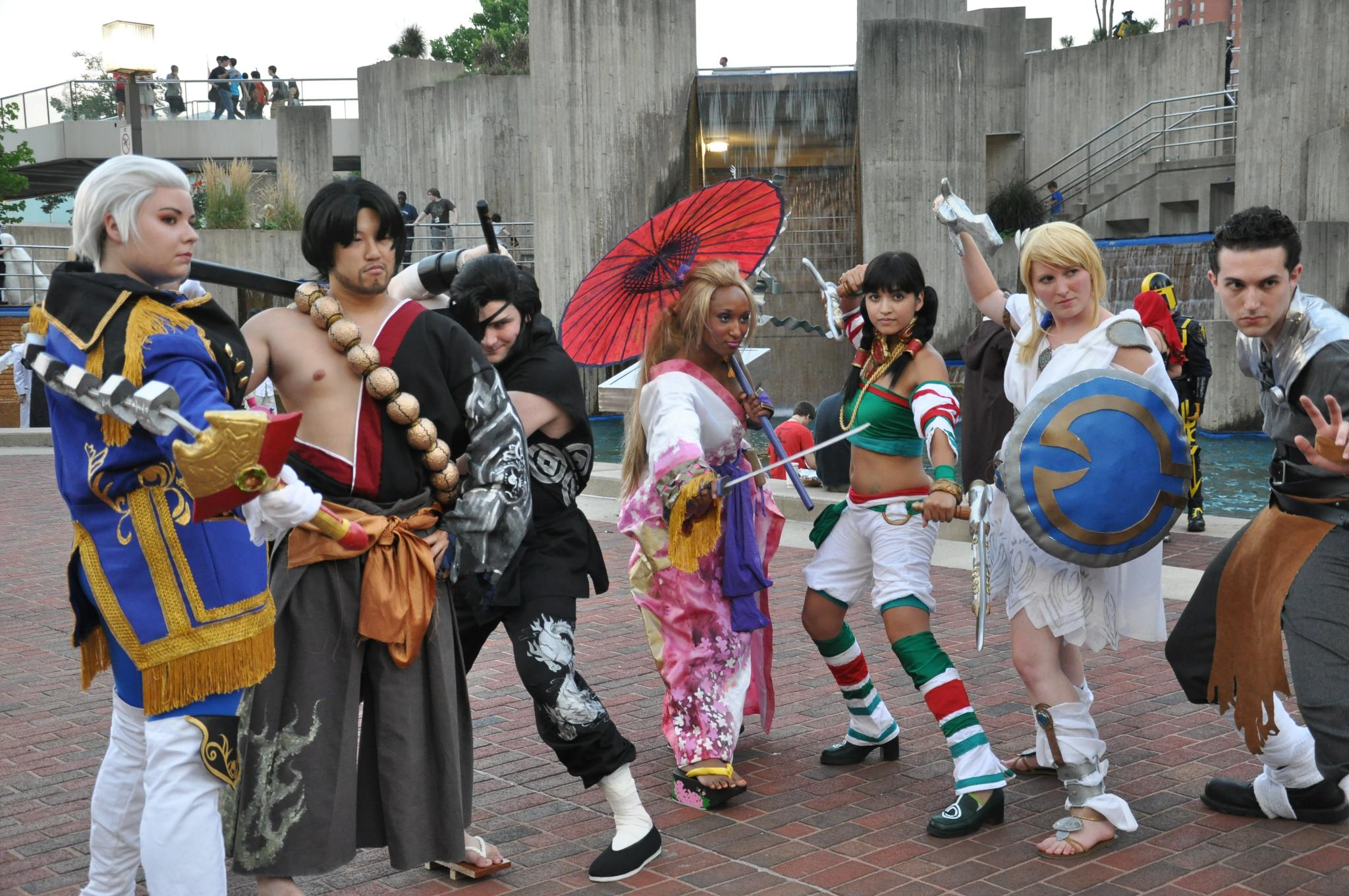 Taken on July 30, 2011 Inner Harbor, Baltimore, MD, US Nikon D90